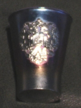 Russian vodka jar made from a nuclear fuel rod cladding as part of the defense-conversion process in the 1990s. The jar is made from zircaloy, a zirconium-based alloy that found widespread applications in nuclear fuel rods for its low absorption cross-section for thermal neutrons.